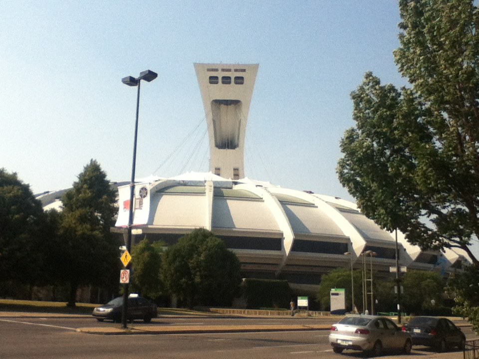 stade olympique